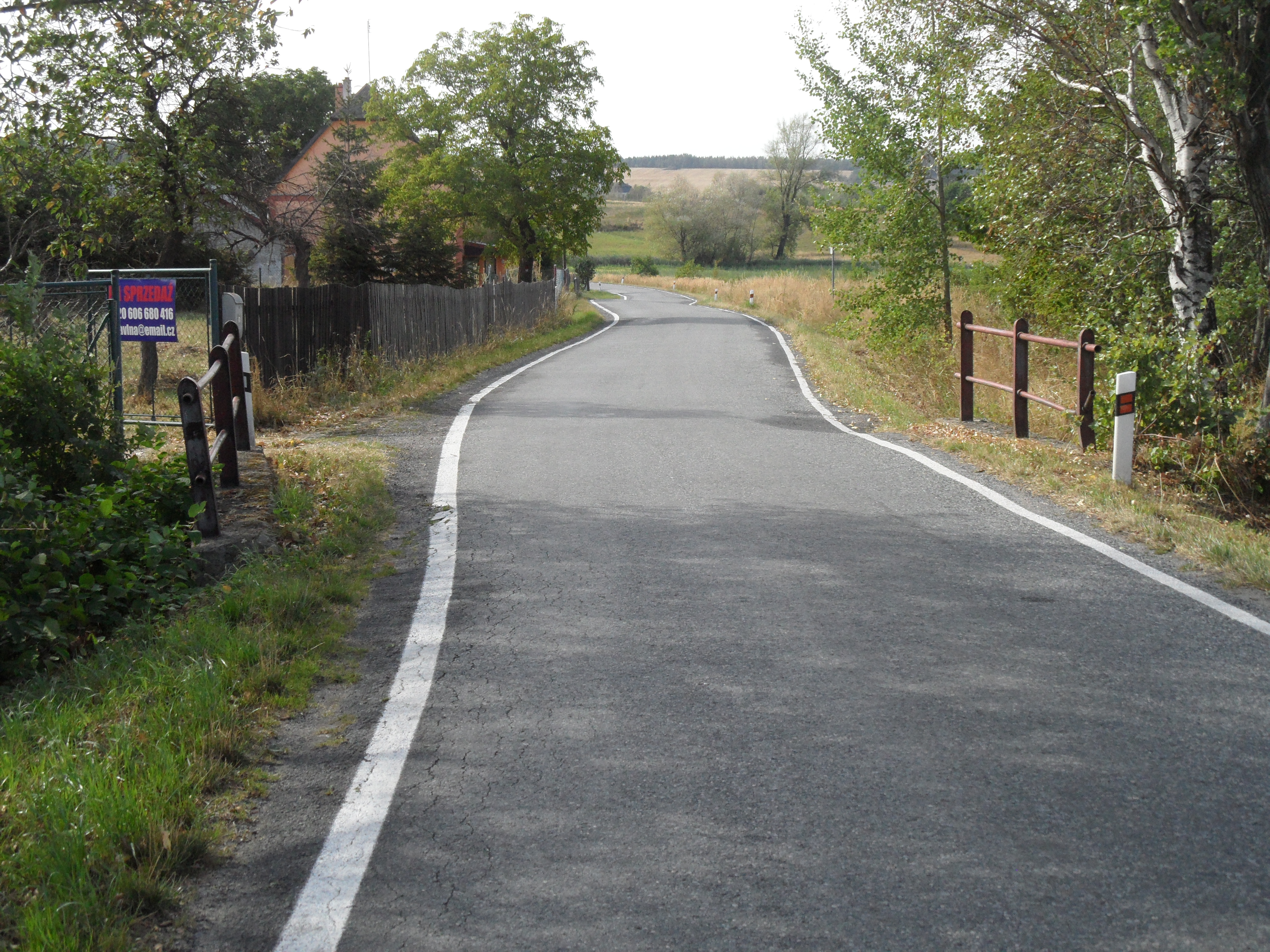 Kamenička (Bílá Voda) H. Road from Javorník to Bílá Voda. Jeseník District, the Czech Republic.